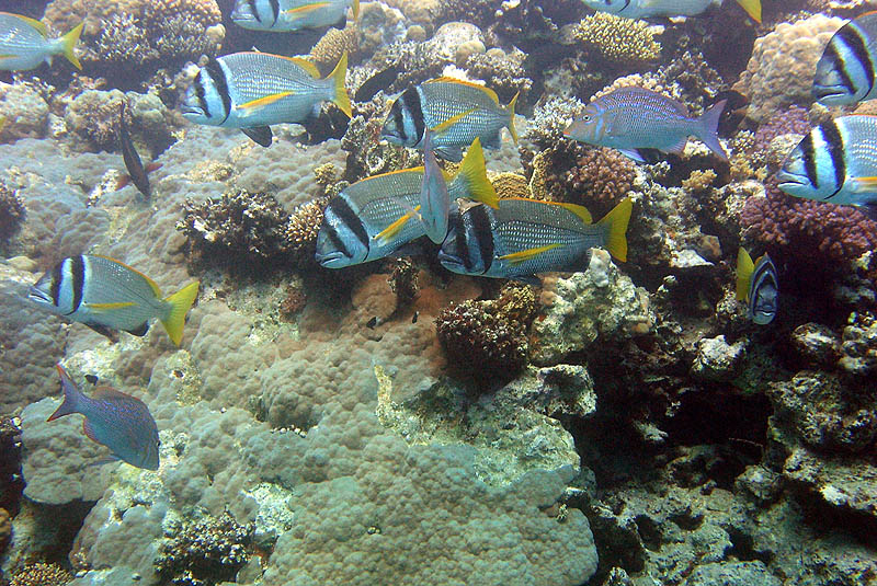 Acanthopagrus bifasciatus